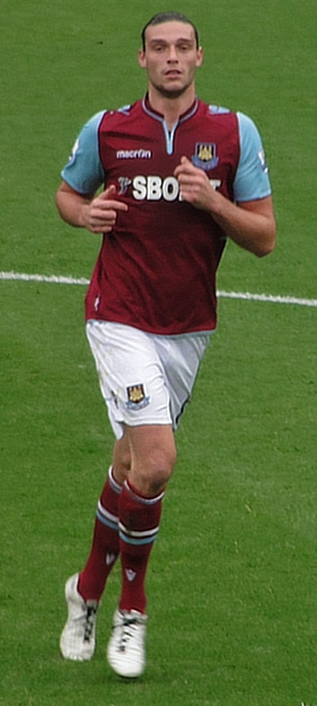 West Ham United player Andy Carroll during their Premier League game at The Boleyn Ground against Southampton in October 2012